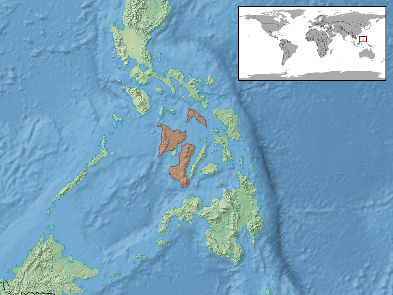 geographic distribution of Sphenomorphus arborens (IUCN) syn. Insulasaurus arborens (RDB)